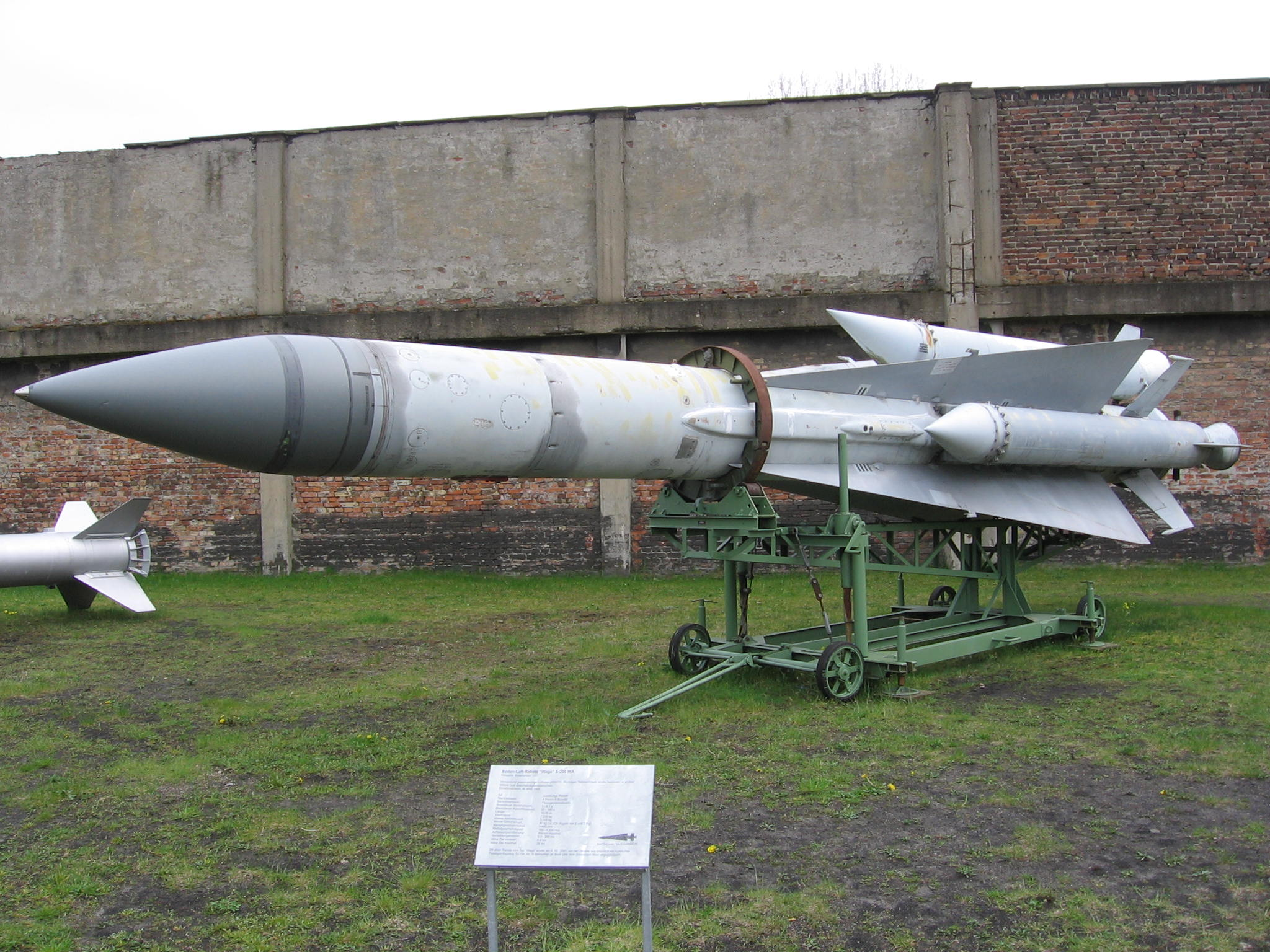 S-200 "Vega" SAM.